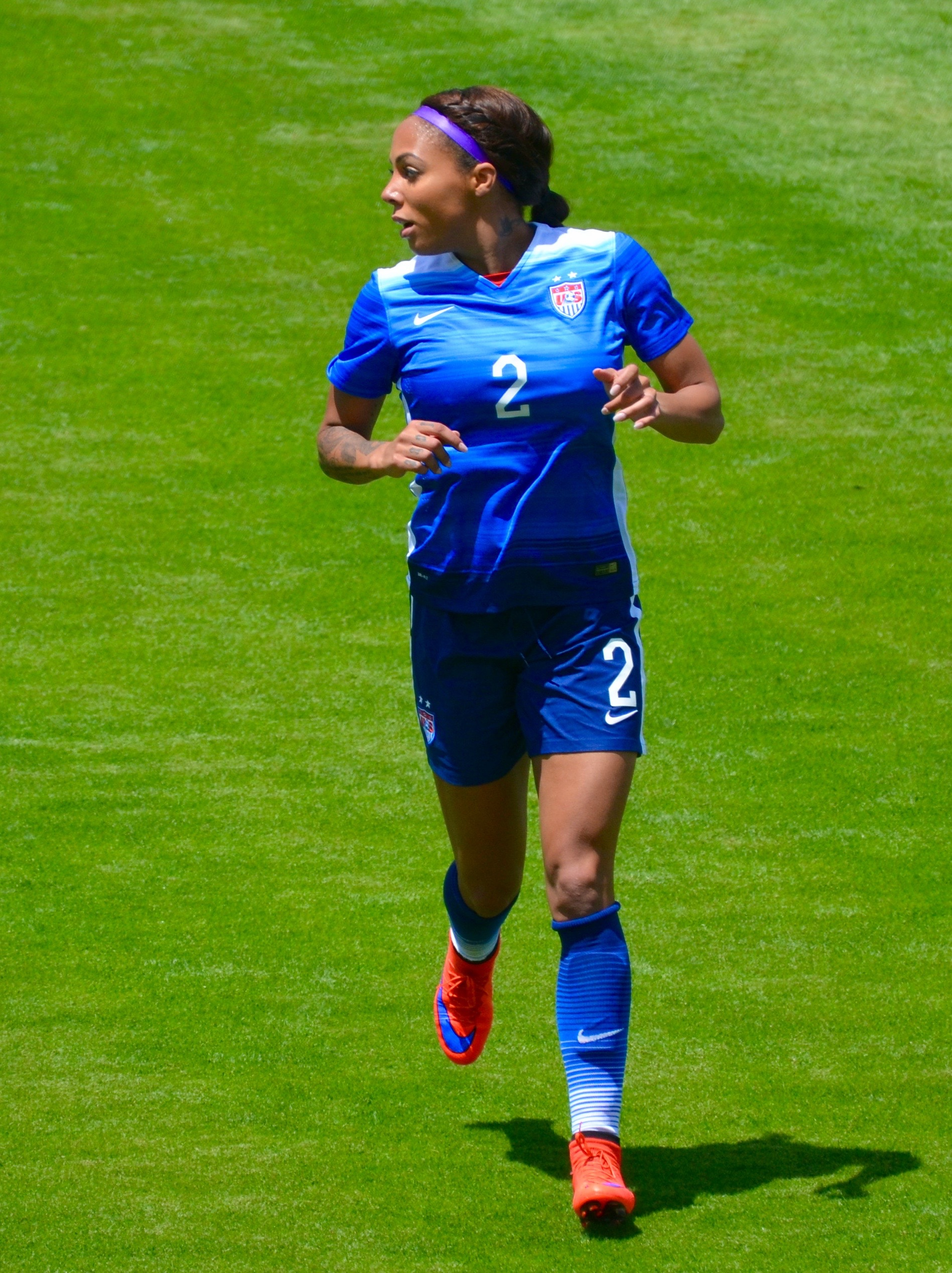 Sydney Leroux playing for the US Women's National Team in San Jose, California on 10 May 2015.